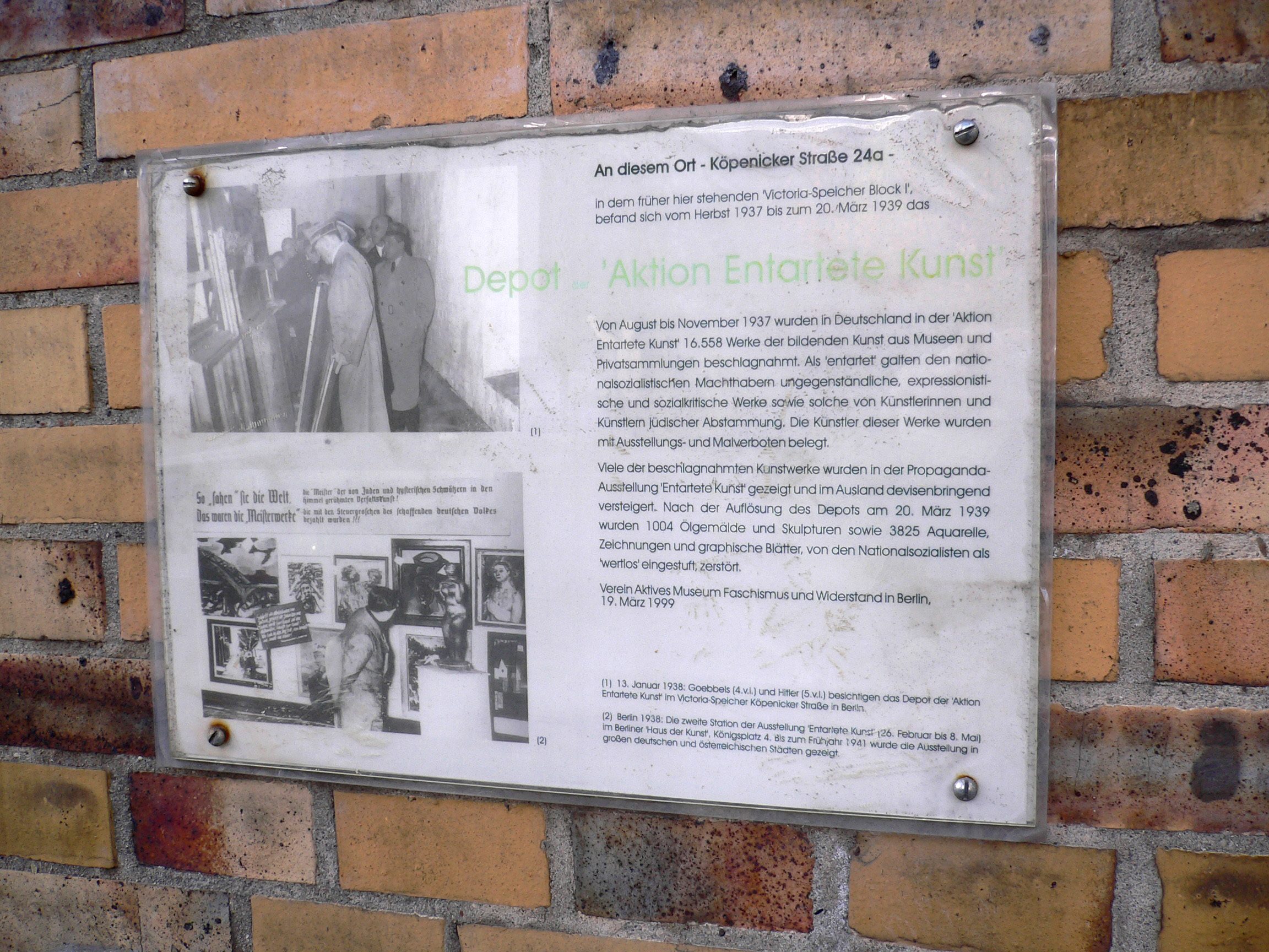 plaque at the entrance of Köpenicker Straße 24a, Berlin-Kreuzberg, in memory of the Viktoria-Speicher Block I, depot of from Nazis so called "Entartete Kunst" from late 1937 until 1939-03-20